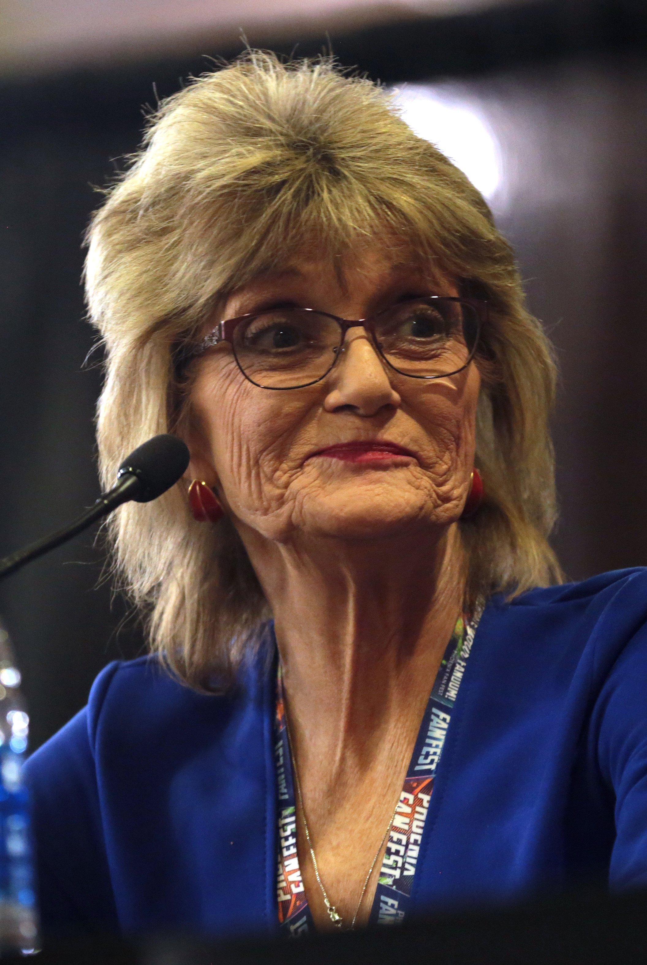 Denise Nickerson speaking at an event in Phoenix, Arizona.